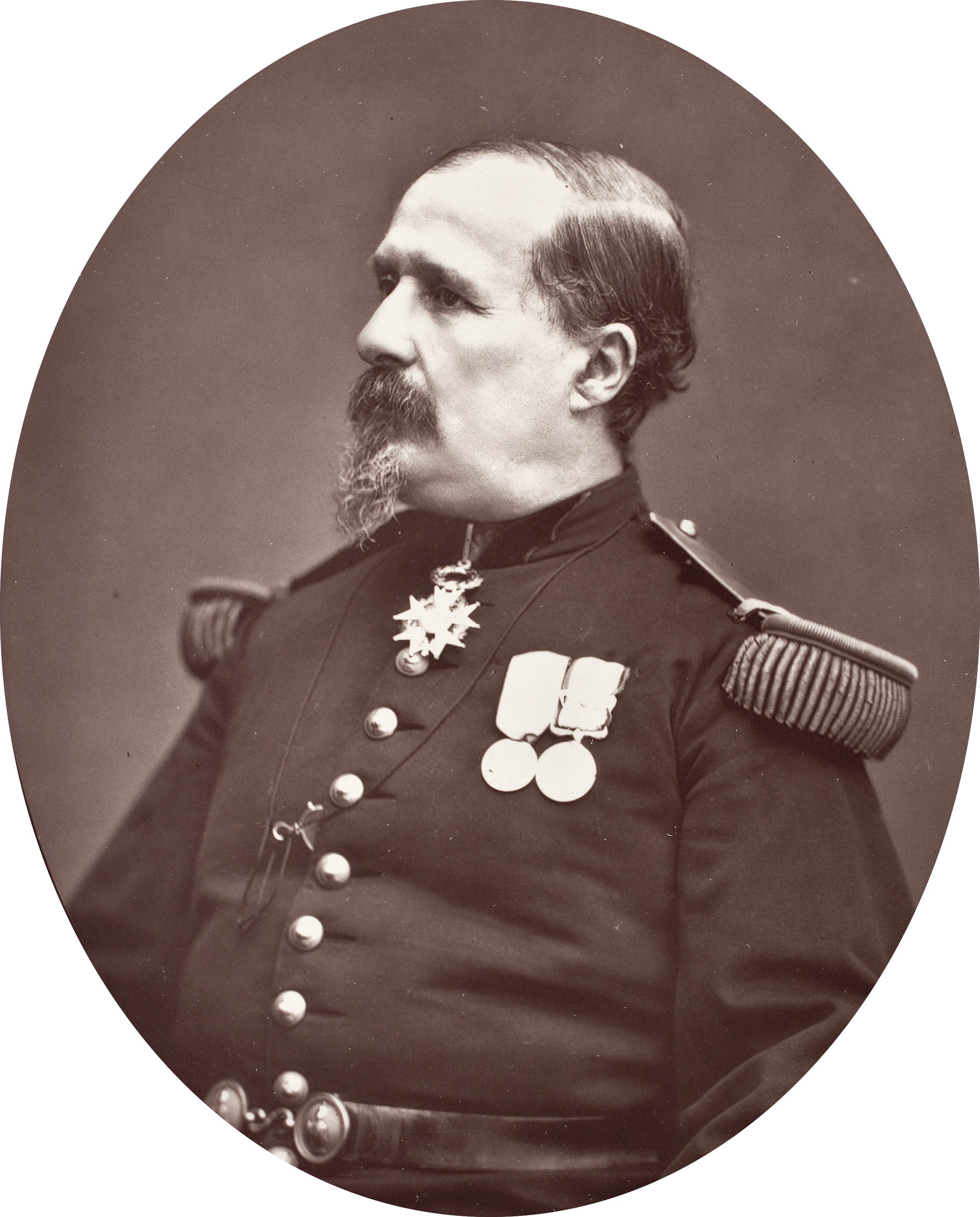 portrait of Col. Denfert-Rochereau